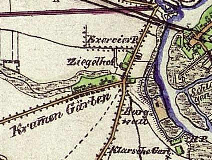 Bullengraben and Burgwallgraben 1842. Today part of Berlin-Spandau, Germany.